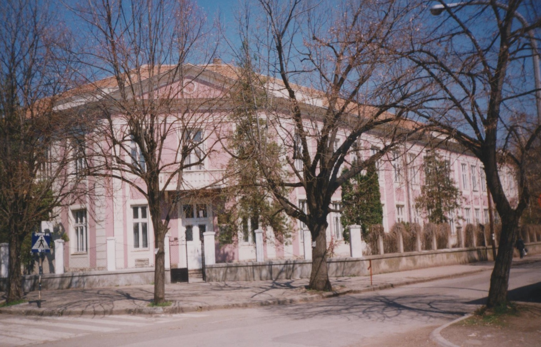 College of professional studies for preschool teachers, ex school for teachers in Pirot